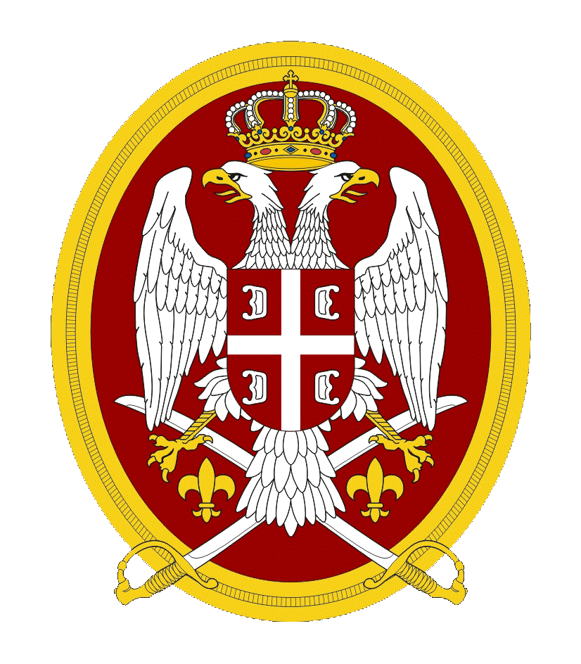 Serbian Land Forces coat of arms